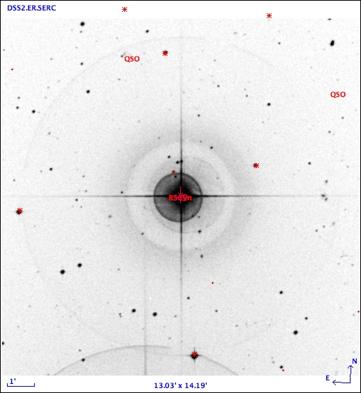 This visual negative is centered on V711 Tauri. Credit: Aladin at SIMBAD.